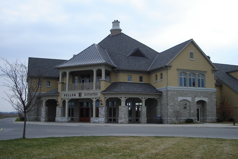 Weingut Peller Estates in Niagara-on-the-Lake, Ontario, Kanada